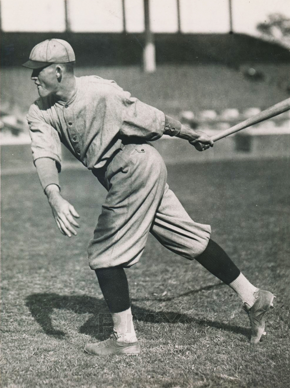 Batting photograph of Rogers Hornsby in full uniform for the St. Louis Cardinals.